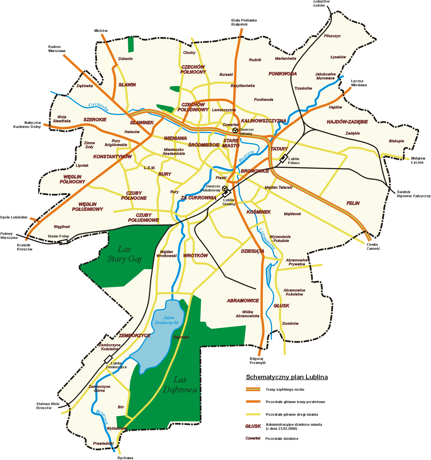 Schematic map of Lublin - with districts, main streets and railroads